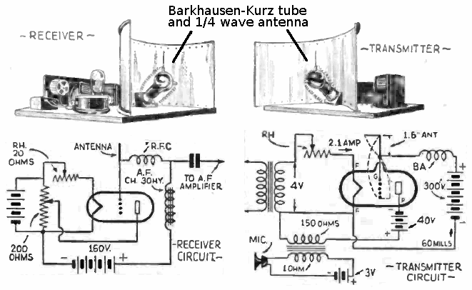 An experimental 3 GHz microwave AM transmitter and receiver using a triode vacuum tube in Barkhausen-Kurz mode for both transmitting and receiving. In Barkhausen-Kurz mode the plate is biased near zero voltage while the grid is biased at a high positive voltage. The electrons oscillate back and forth through the grid, attracted by the grid and repelled by the low voltages on both the cathode and plate. The Barkhausen-Kurz was the first tube that could oscillate in the UHF range, and by the mid 30s could generate microwave frequencies. It was the only source of microwaves until the klystron was invented. The output frequency is determined by the geometry of the tube and the 4 cm half-wave antenna soldered directly to the grid terminal. The tubes and antennas are mounted at the focus of parabolic reflectors which are pointed at each other. In the receiver the Barkhausen-Kurz tube is operated below oscillation as an amplifier . Alterations to image: Edited two images together and added label pointing out B-K tube